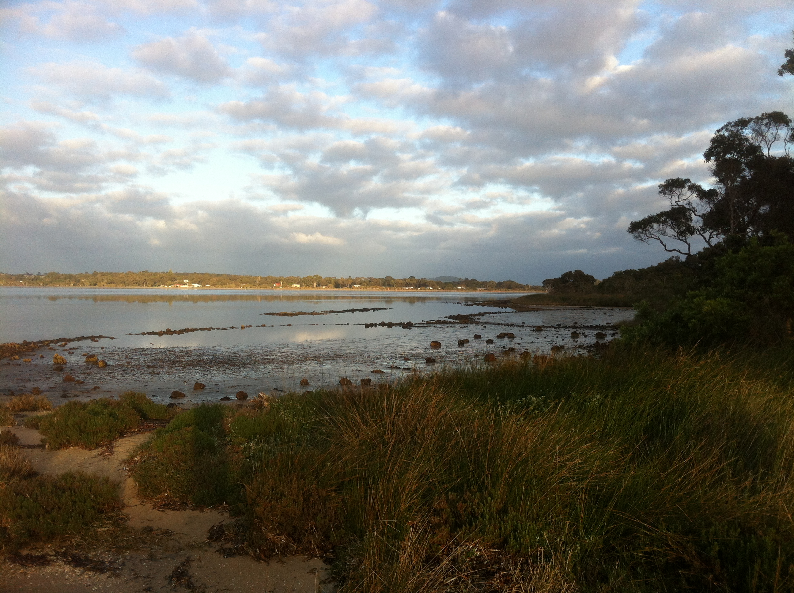 Noerthern Portion of fish Traps at Kalgan river Bridge end